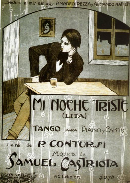 The score´s title of Mi noche triste, the first tango-song. Lyrics by Pascual Contursi; music by Samuel Castriota; recorded the first time by Carlos Gardel in may 1917.